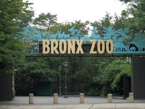 Asia Gate Entrance at Bronx Zoo.